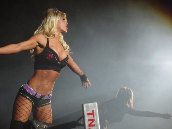 Angelina Love at a live event.